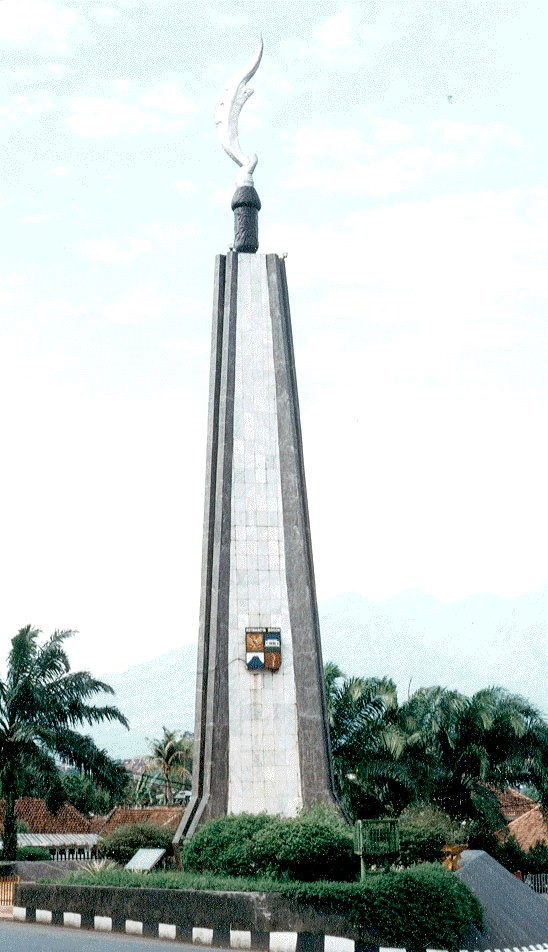 Kujang Monument, Bogor City